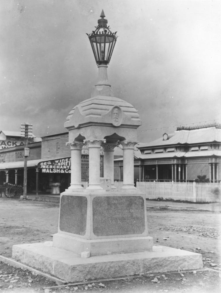 Memorial to Dr. E. A. Koch in Cairns, ca. 1903 This memorial was later moved from the corner of Abbott and Spence Streets.